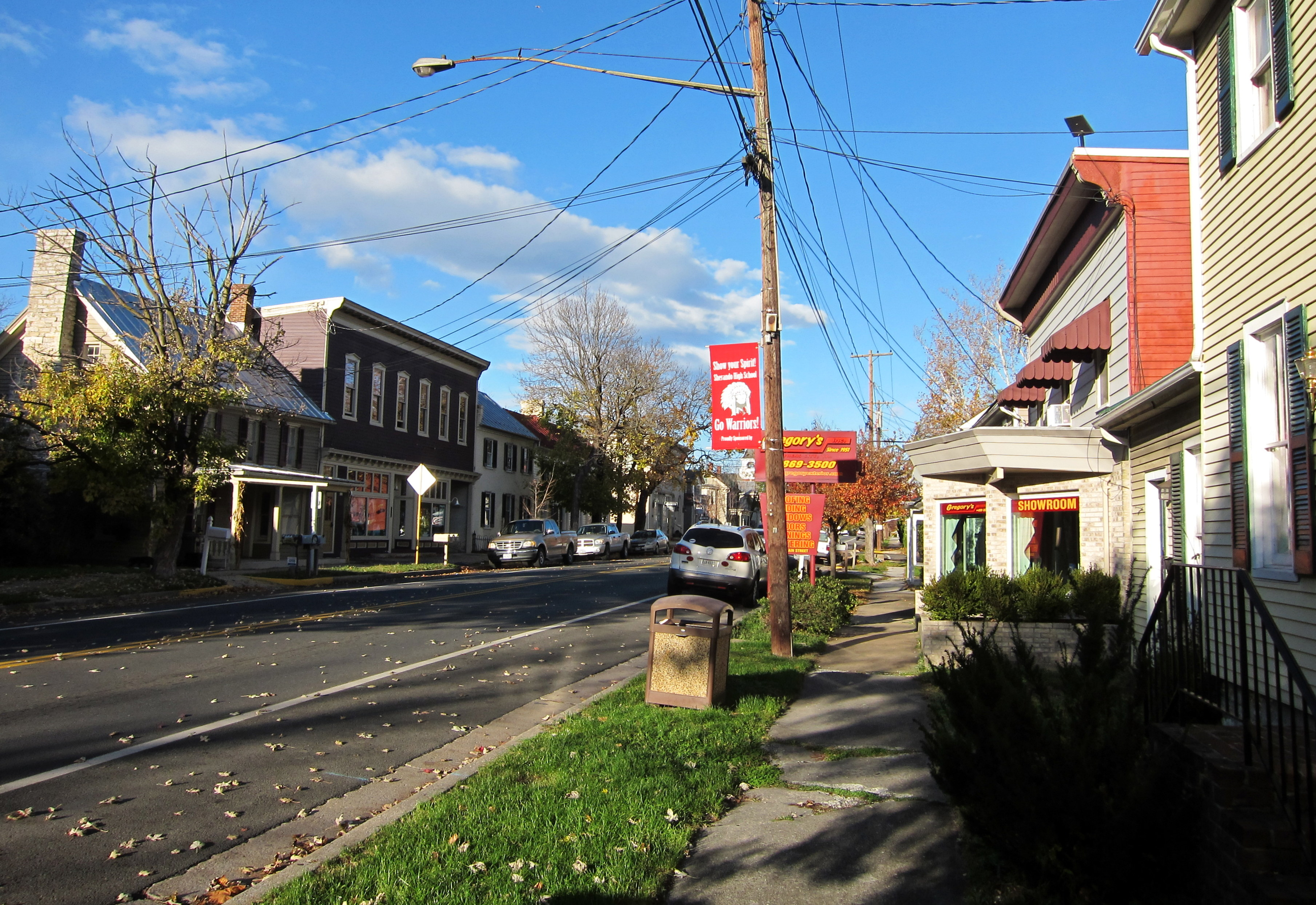 Facing north on the 5300 block of Main Street in Stephens City, Virginia. The buildings are designated contributing properties to the Newtown-Stephensburg Historic District, listed on the National Register of Historic Places in 1992.